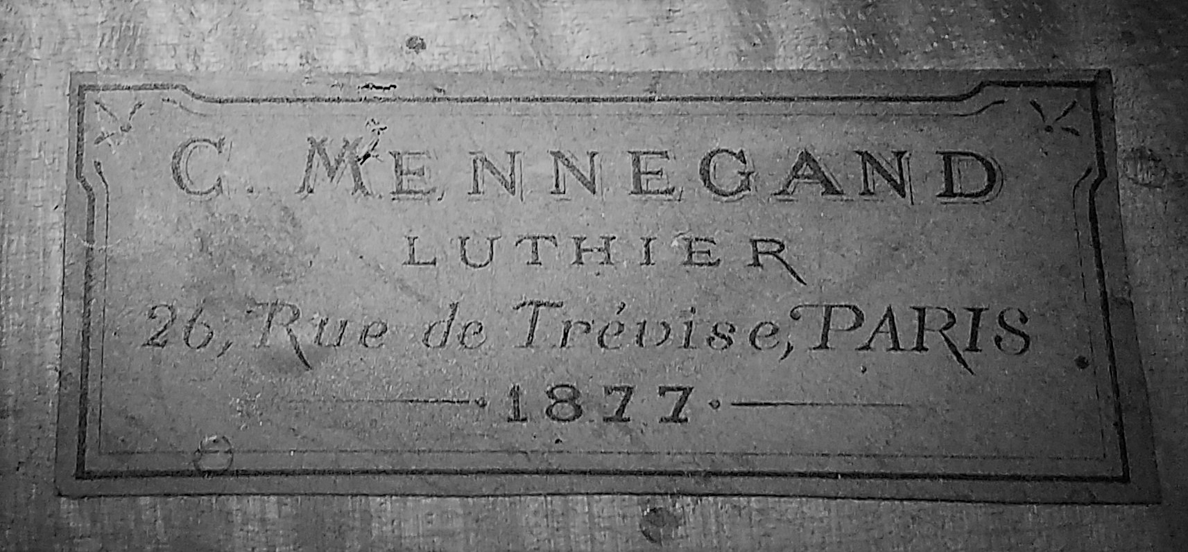 Charles Mennegand label for an instrument reading "C. Mennegand, Luthier, 26, Rue de Trevise, Paris, 1877.